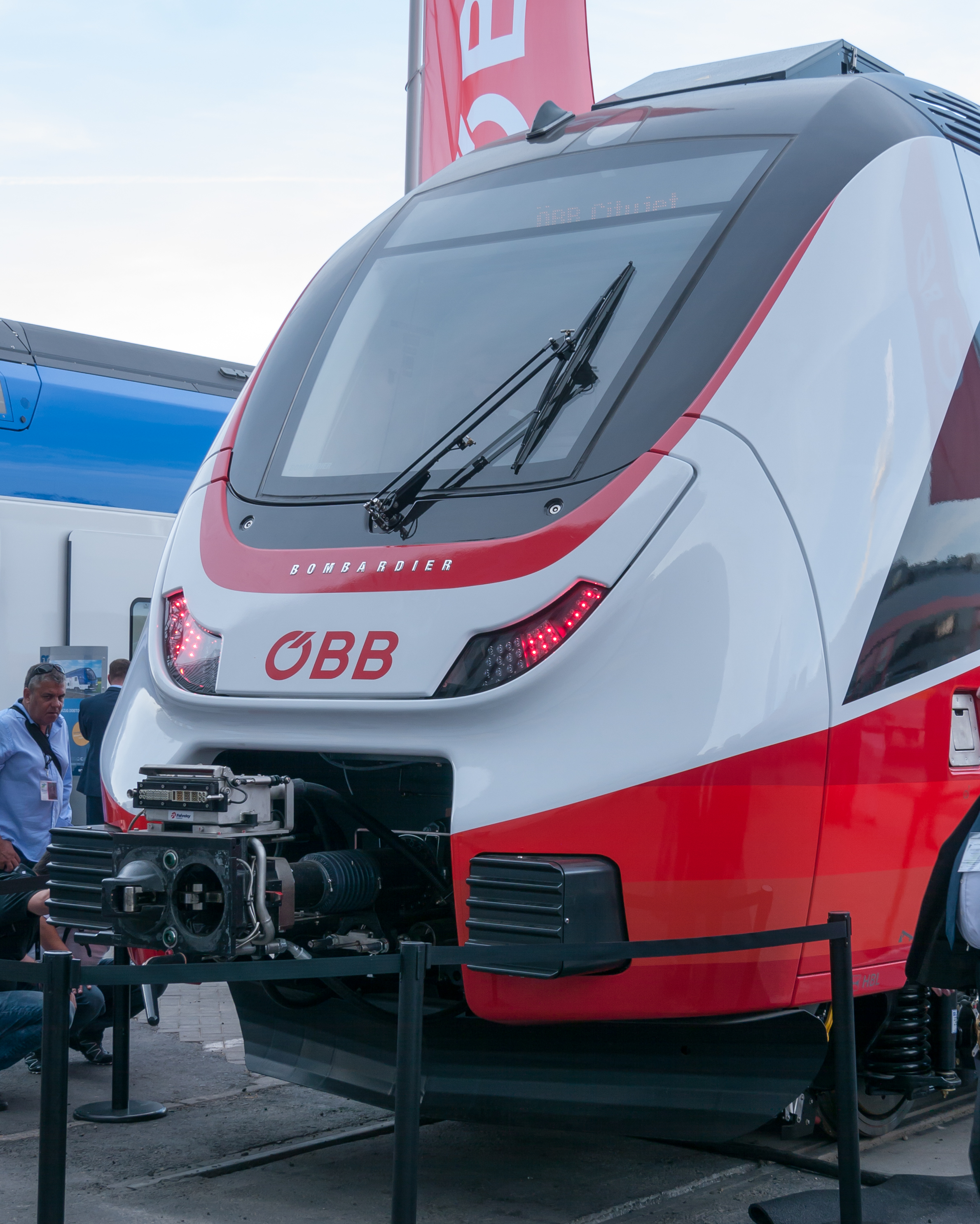 Bombardier Talent 3 for ÖBB at Innotrans 2018 fair in Berlin, Germany